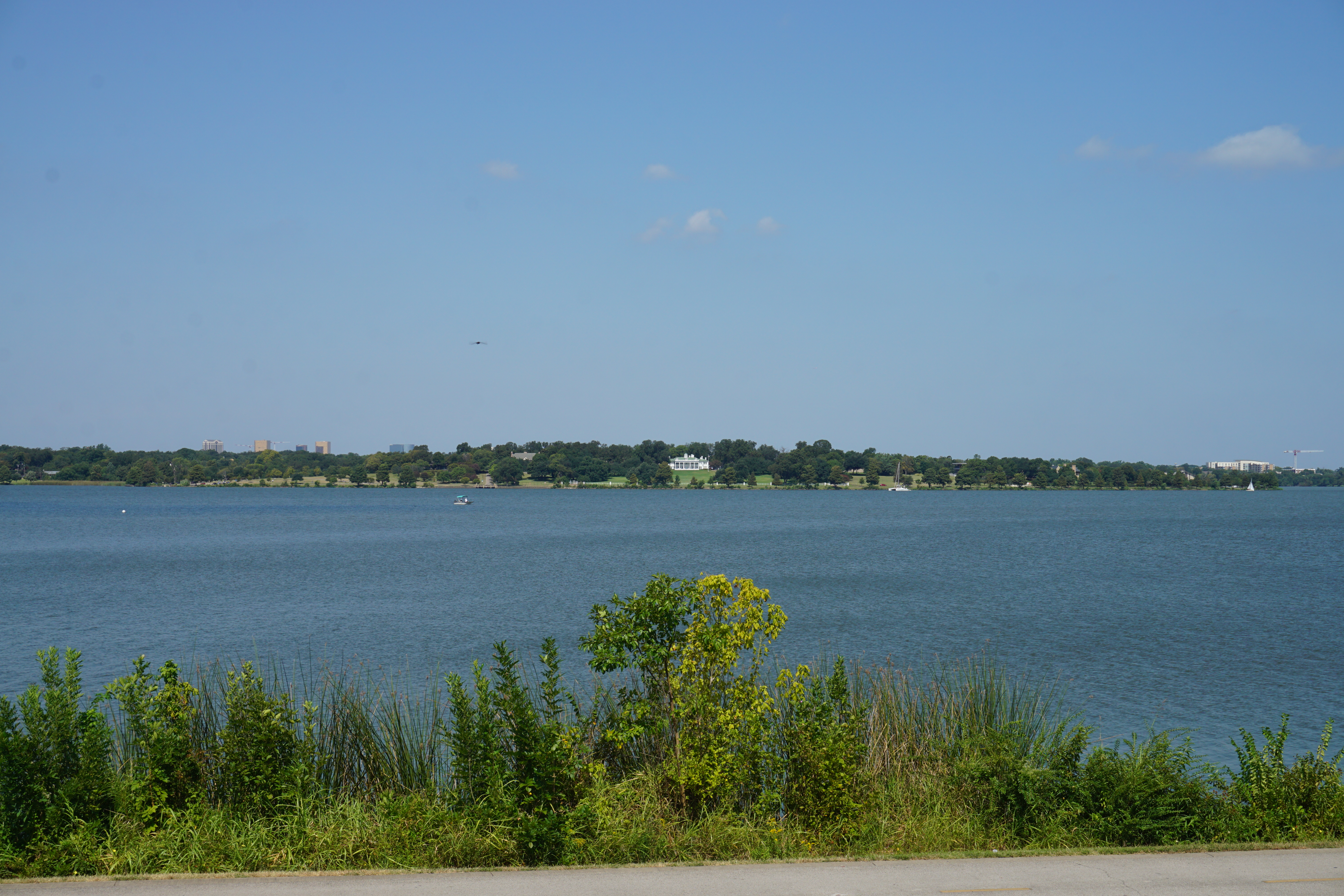 White Rock Lake as viewed from the Dallas Arboretum and Botanical Garden in Dallas, Texas (United States).